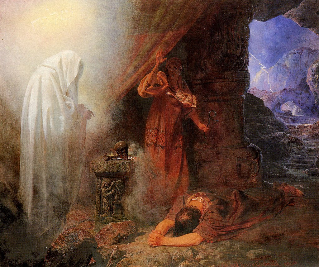 Saul and the witch of Endor. 66 x 78,7 cms | 25 3/4 x 30 3/4 ins. Watercolor with Bodycolor.